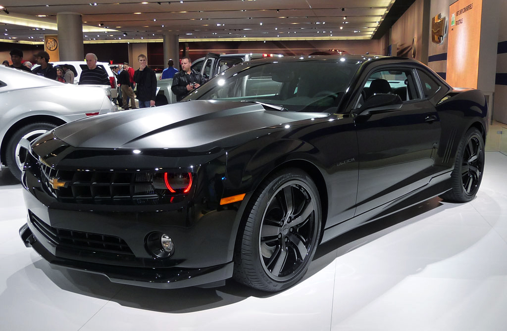 This model takes the production car a step further, with red headlight rings and a monochromatic design